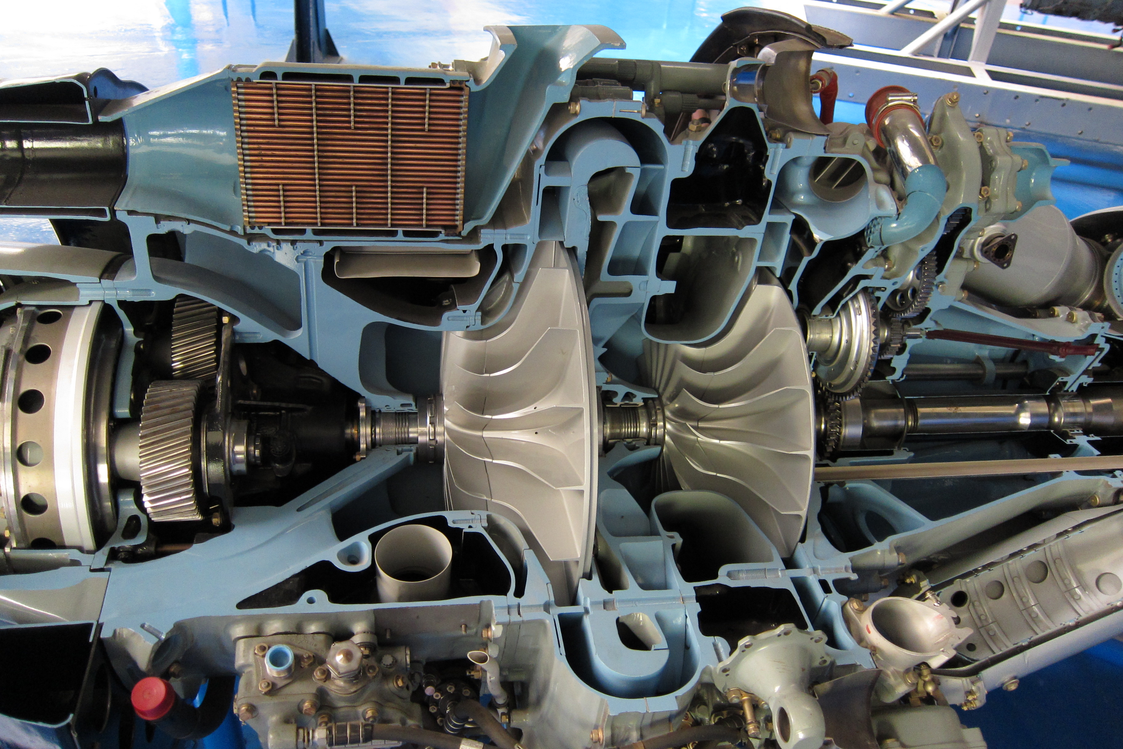 View of a sectioned Rolls-Royce Dart turboprop engine displayed at the Musée de l’Air in Paris, France. Air flow is from left to right. The reduction gearbox linking the main shaft to the propeller, center left, is clearly visible. The two centrifugal compressors can be seen in the center of the photo. Top left is the oil cooler.